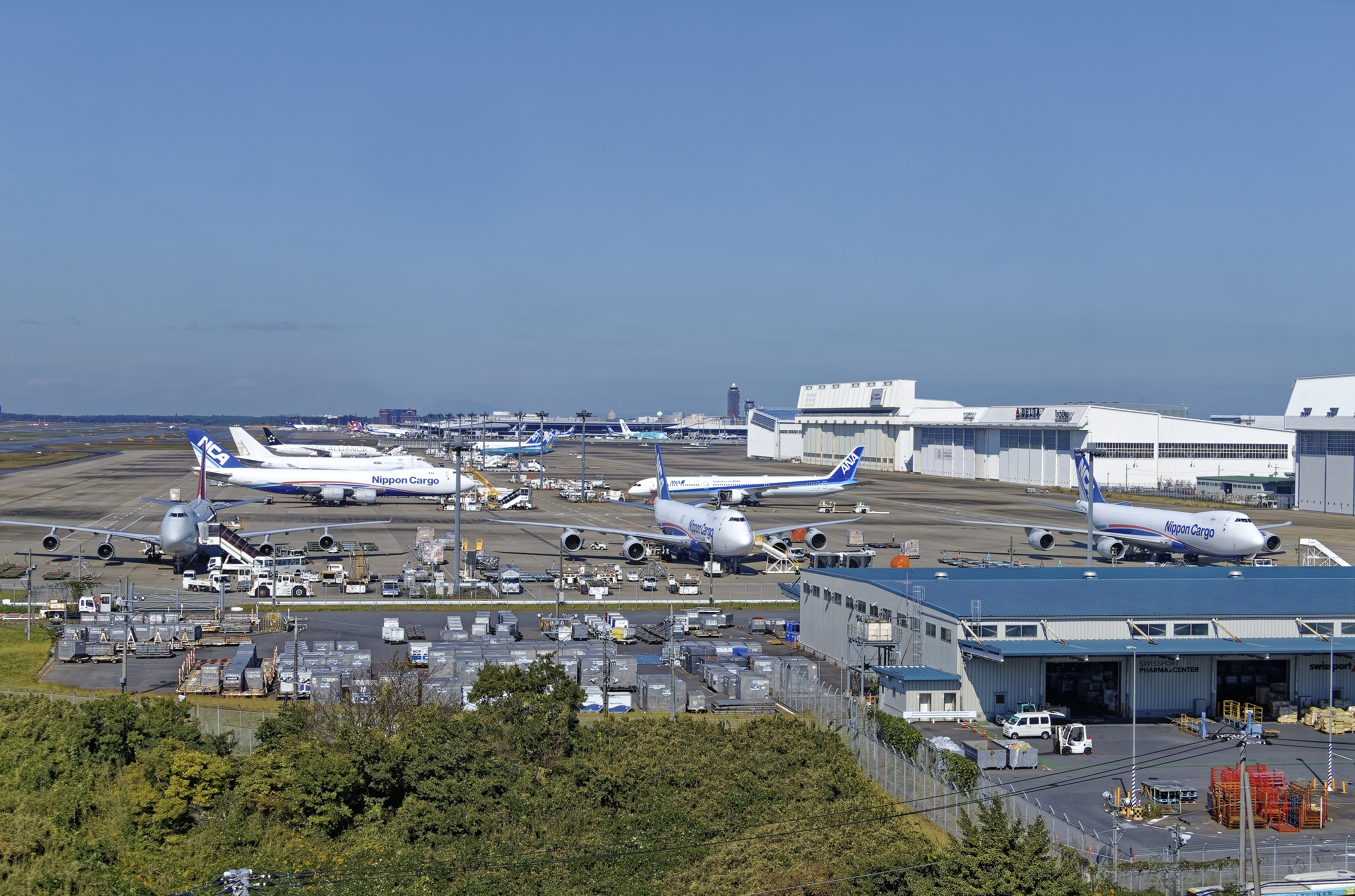 There is a maintenance area in the eastern part of Narita Airport, which has many parking spaces and hangars.